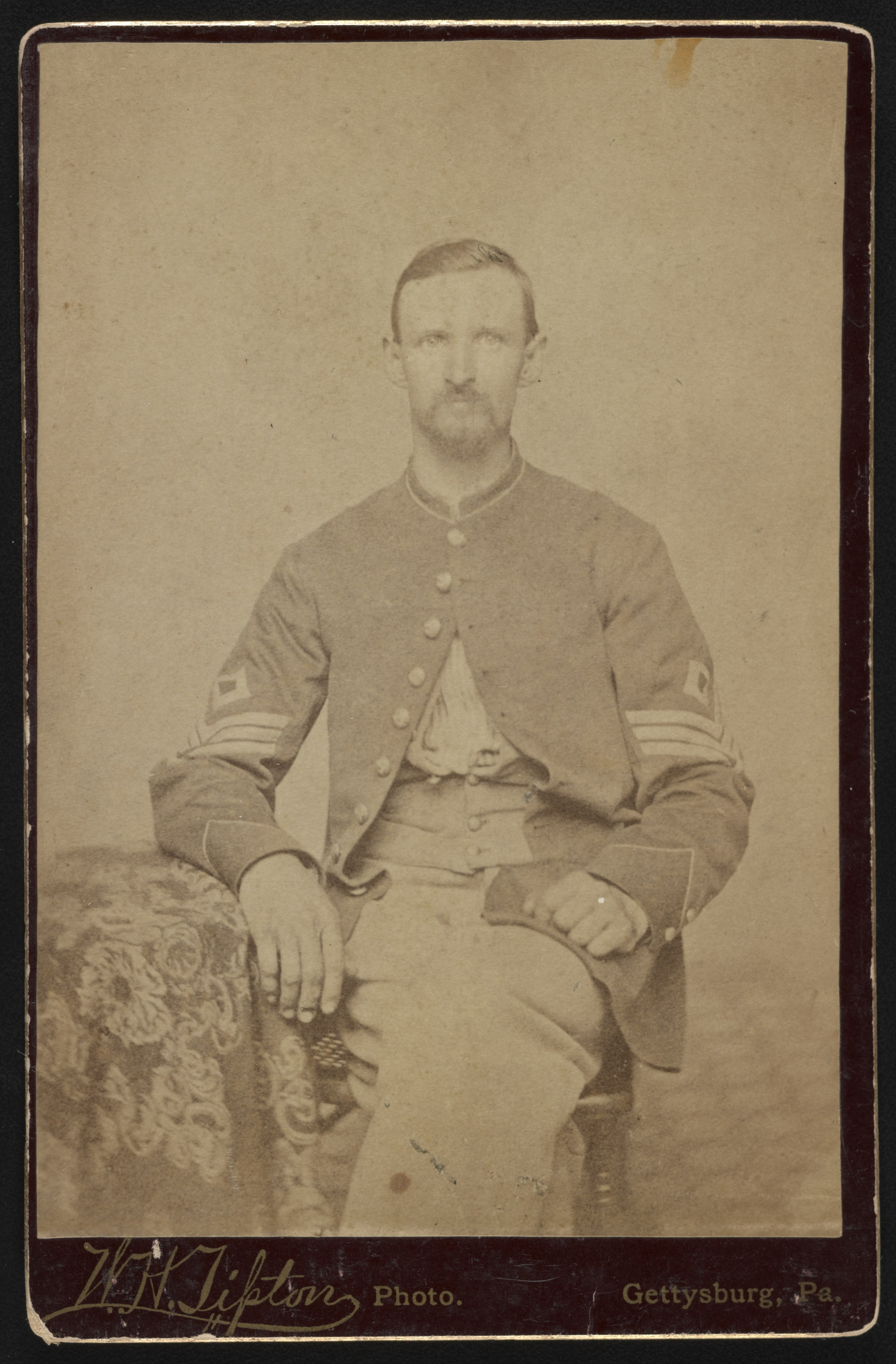 Title: Sergeant Nicholas G. Wilson of Co. G, 138th Pennsylvania Infantry Regiment in uniform] / W.H. Tipton photo, Gettysburg, Pa Abstract/medium: 1 photograph : albumen print on card mount ; mount 17 x 11 cm (cabinet card format)